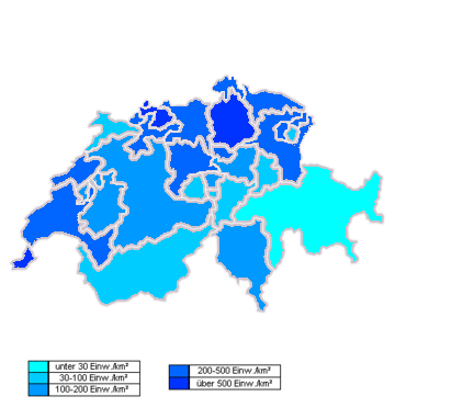 map of Switzerland (the colours signify the population density in the cantons)